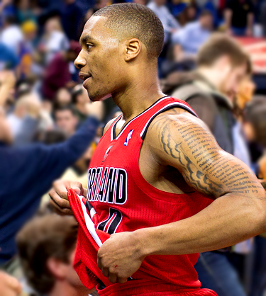 Damian Lillard of the Portland Trail Blazers